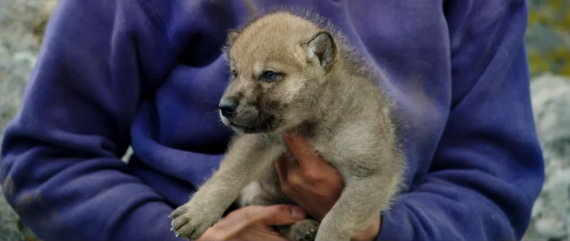 Screenshot of behind the scenes promotional video of Wolf Totem